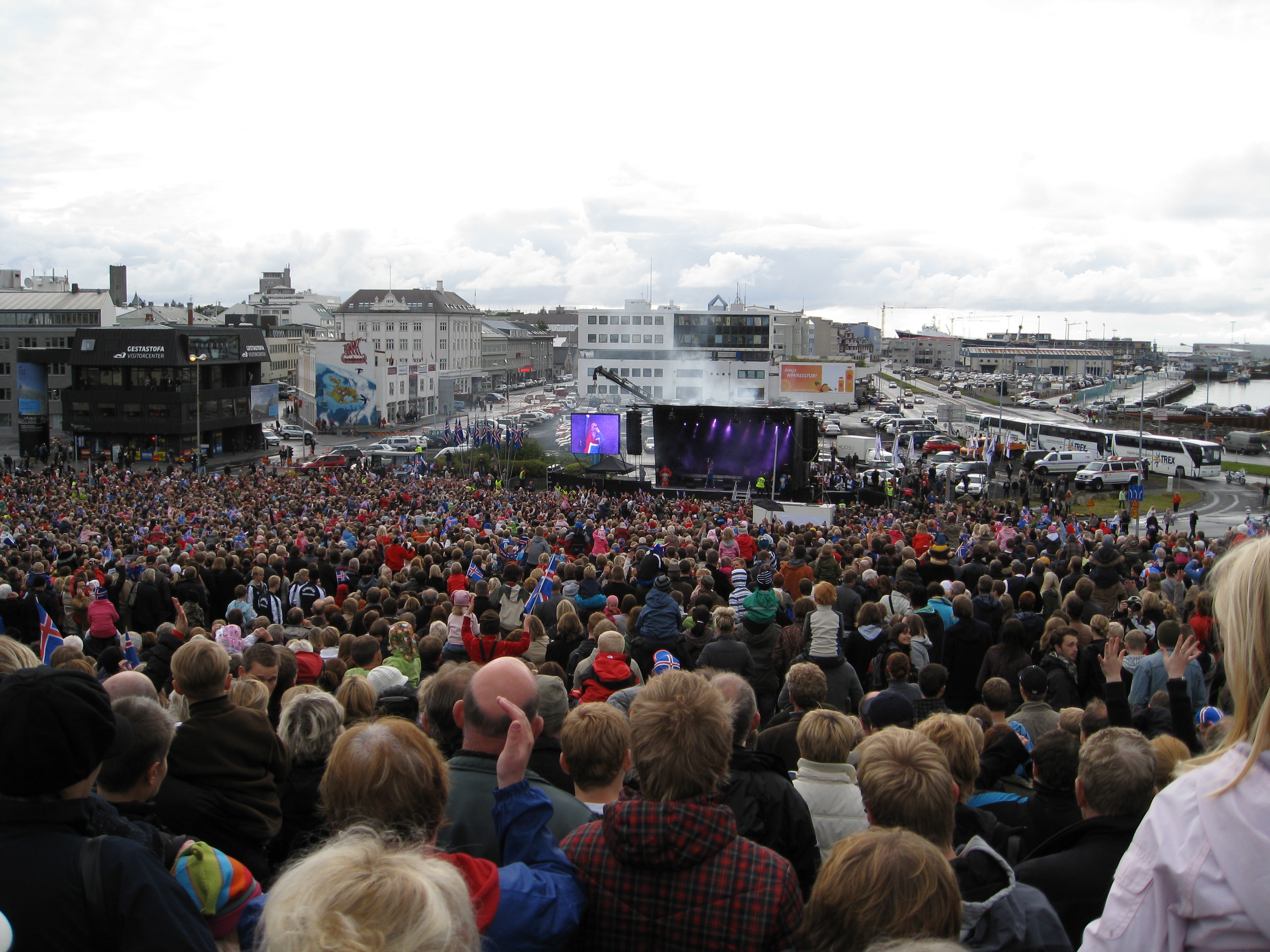 A crowd gathers at Arnarhóll in Reykjavík, Iceland to celebrate the silver won by the national handball team at the 2008 Summer Olympics